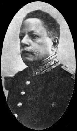 Picture of Tancrede Auguste during Presidency of Haiti.